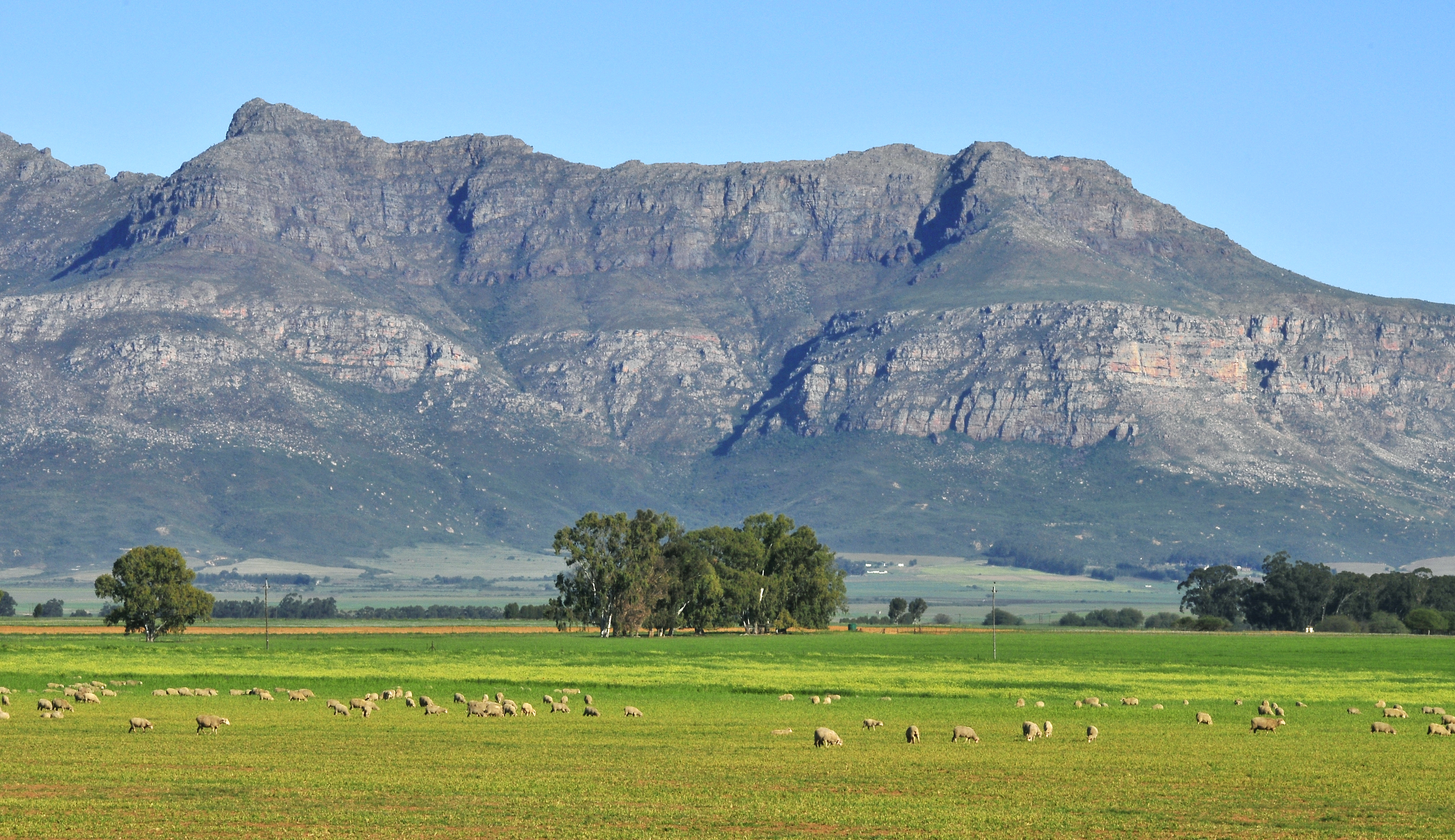 Grazing sheep. Piketberg, Western Cape, South Africa